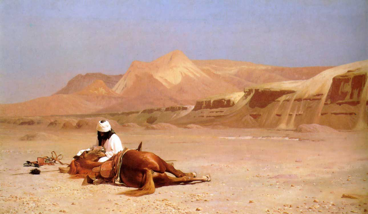 L'arabe et son corbeau (The Arab and his steed)